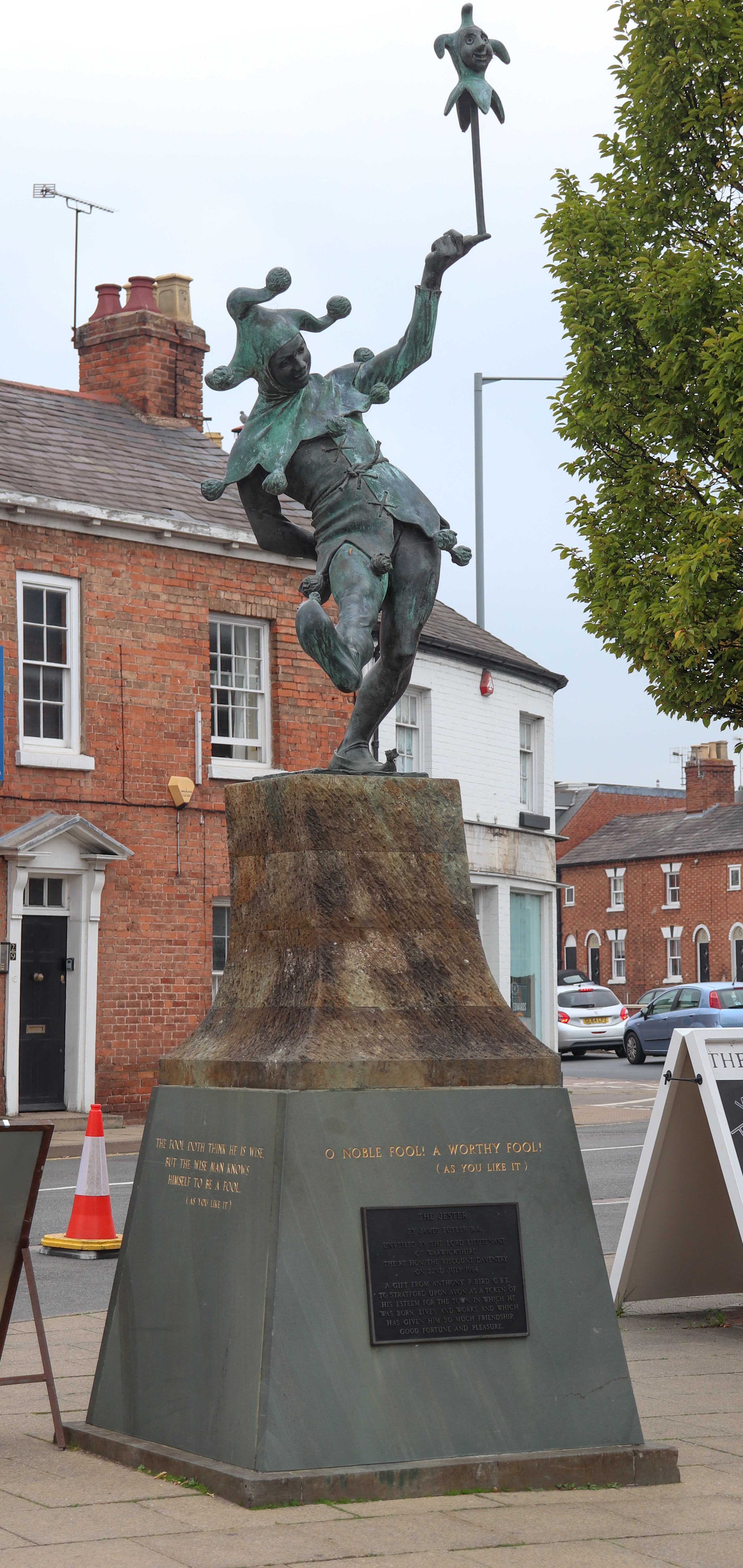 The Jester, Windsor Street, Stratford-upon-Avon